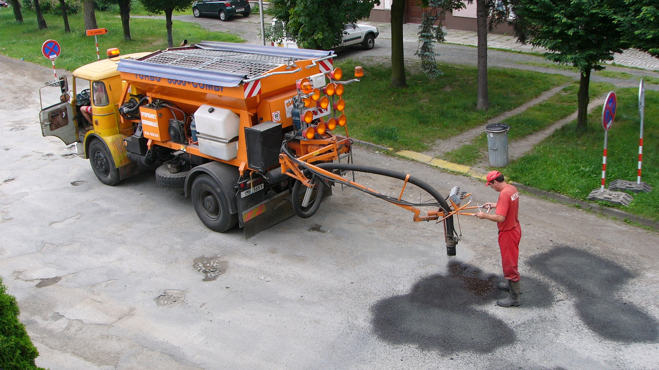 Pothole patching. Locality: Táboritů street, Olomouc.